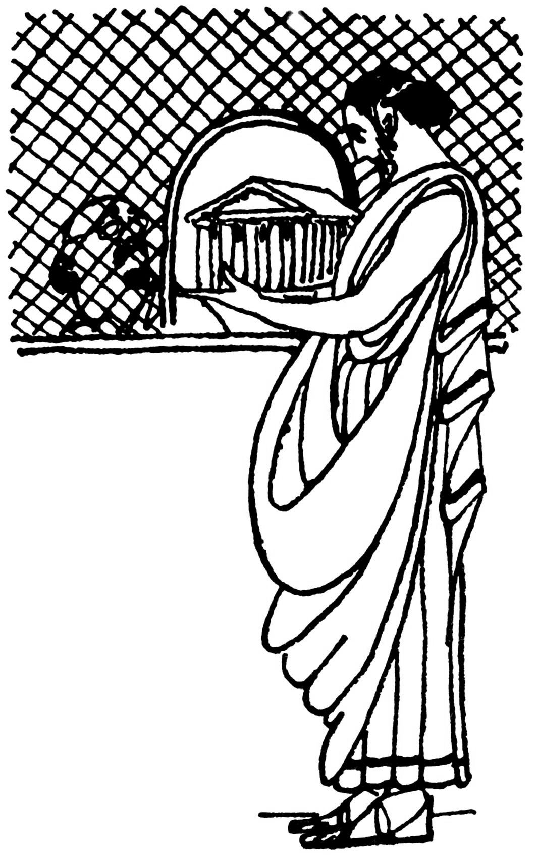 The illustration for the humorous book The General History Edited by Satyricon.The illustration is based on a word play. The General History... narrates about Peisistratos that „он заложил в Ломбардии храм Зевса“ — „he founded the temple of Zeus in Lombardy“. These words sound similar to „он заложил в ломбарде храм Зевса“ — „he pawned the temple of Zeus“. That is why Peisistratos is depicted with a small temple before the window of a pawn shop.